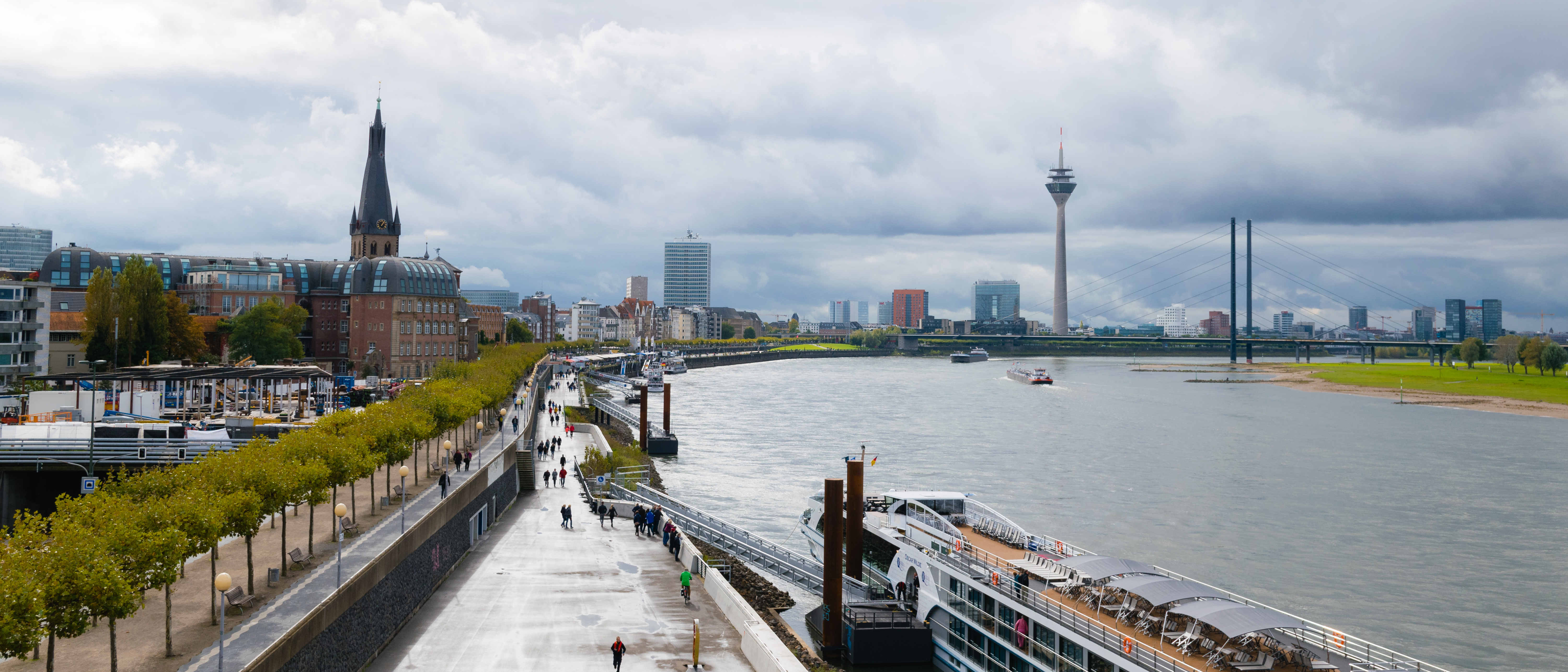 Panorama of the city of Duesseldorf.